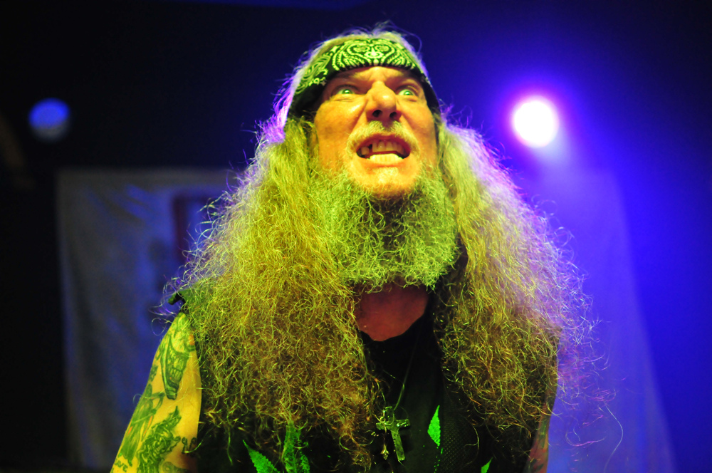 Dave Chandler, guitarrist of doom metal band Saint Vitus, performing live at The Rail Club, Dallas, Texas, 8-19-11